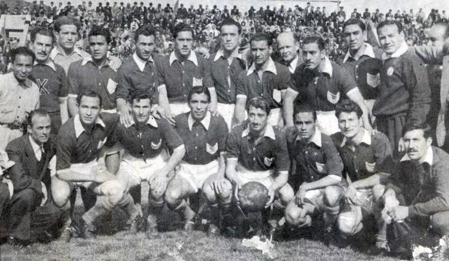 The football squad of Argentine Club Atlético Lanús that won the Primera B championship in 1950.